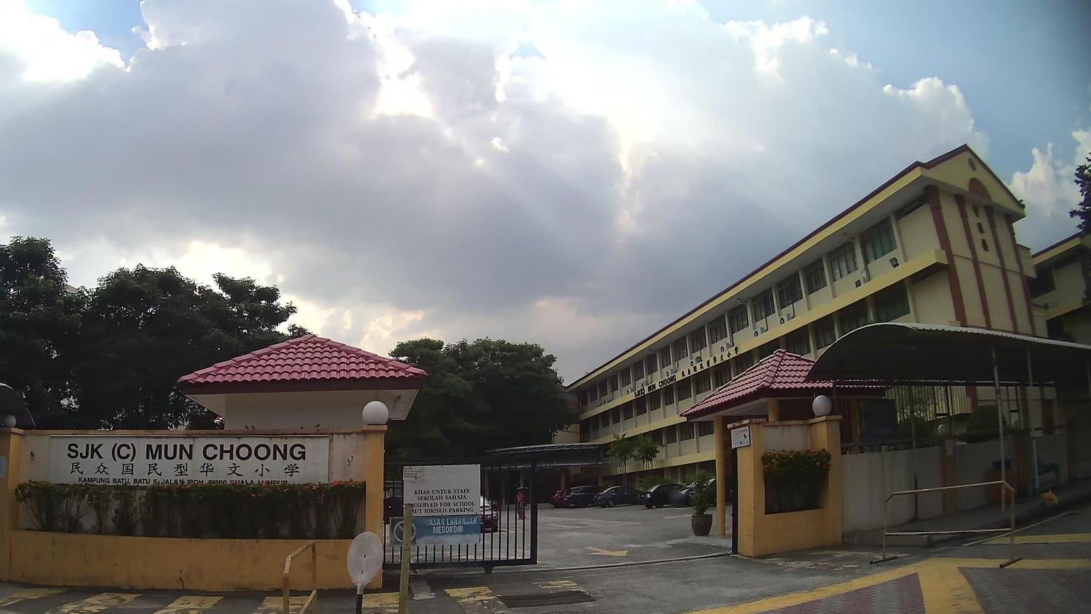 SJK (C) Mun Choong